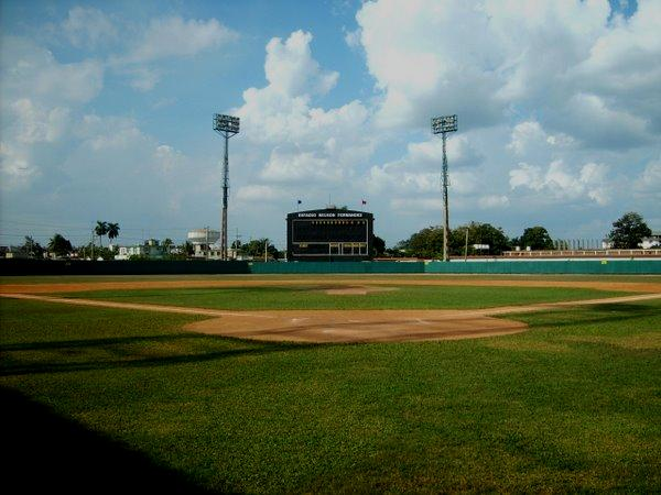 Nelson Fernandez Baseball stadium